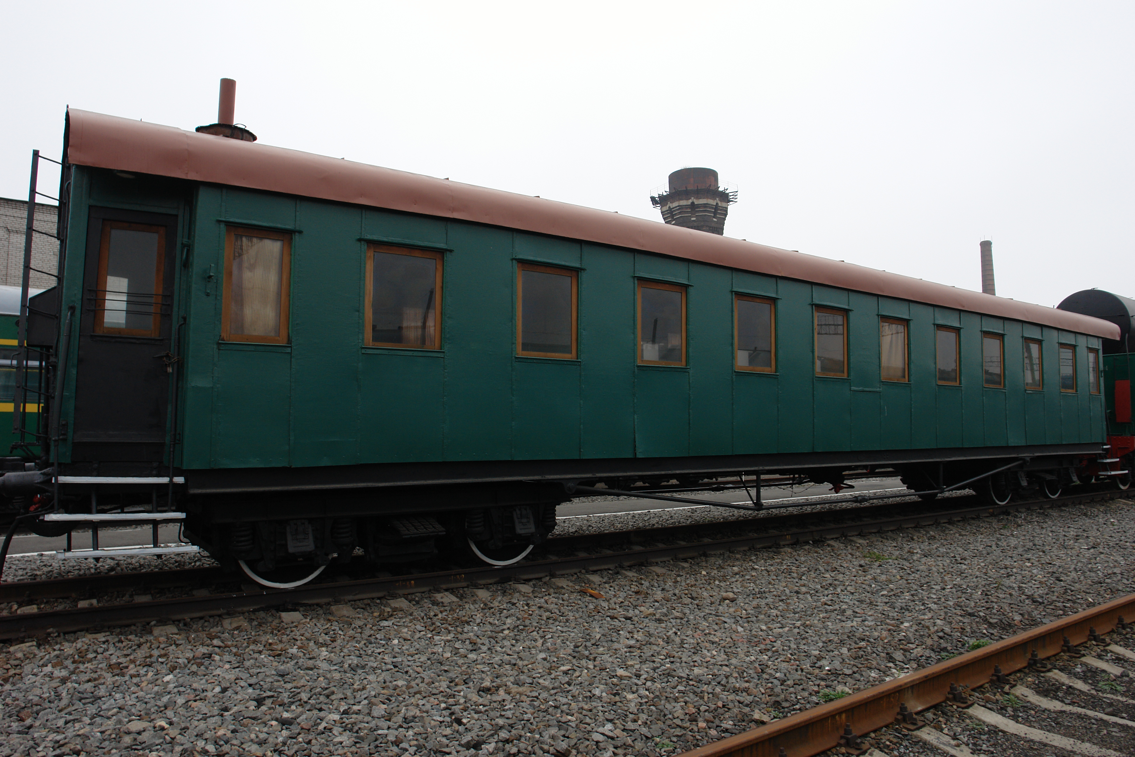 4-axle passenger coach Ok 3906 for suburban traffic Tare weight45 t.Number of seats94Body length20.2 mBogie typeTsVTK, strengthened